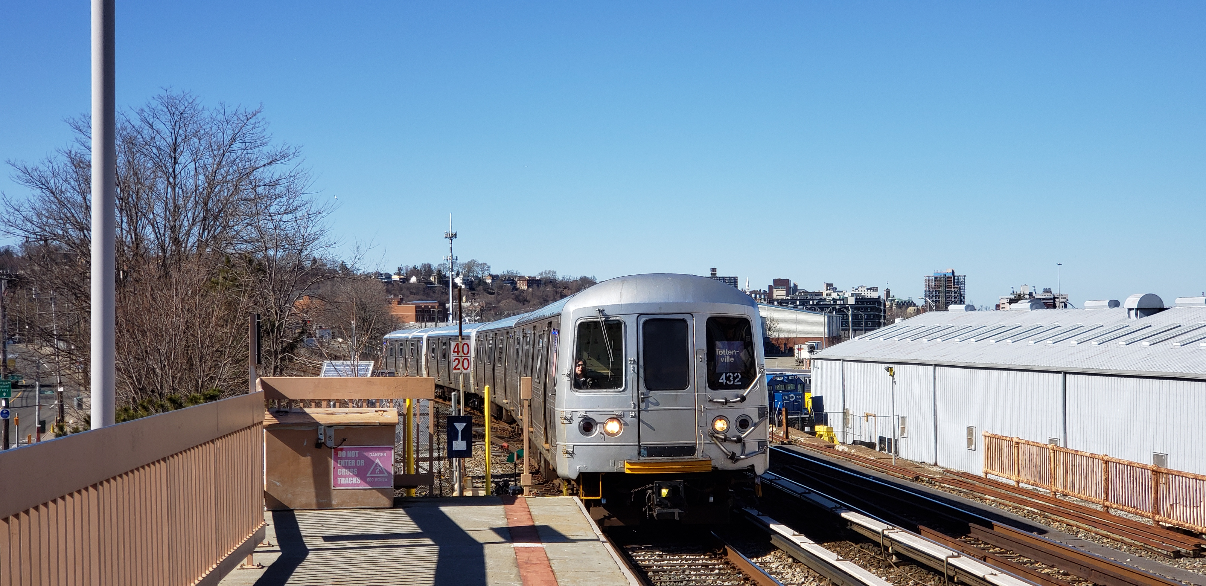 Tottenville Local at Clifton Station, facing north